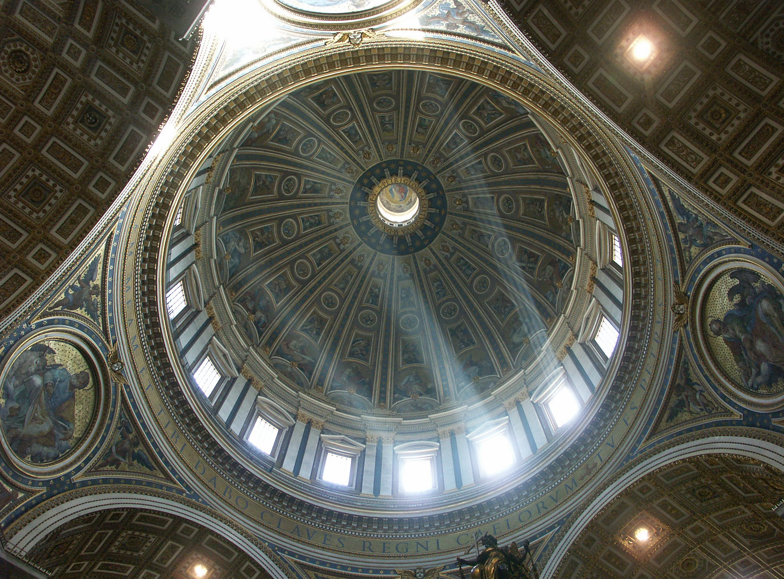 Dome of the St. Peter's Basilica in Vatican City, Rome